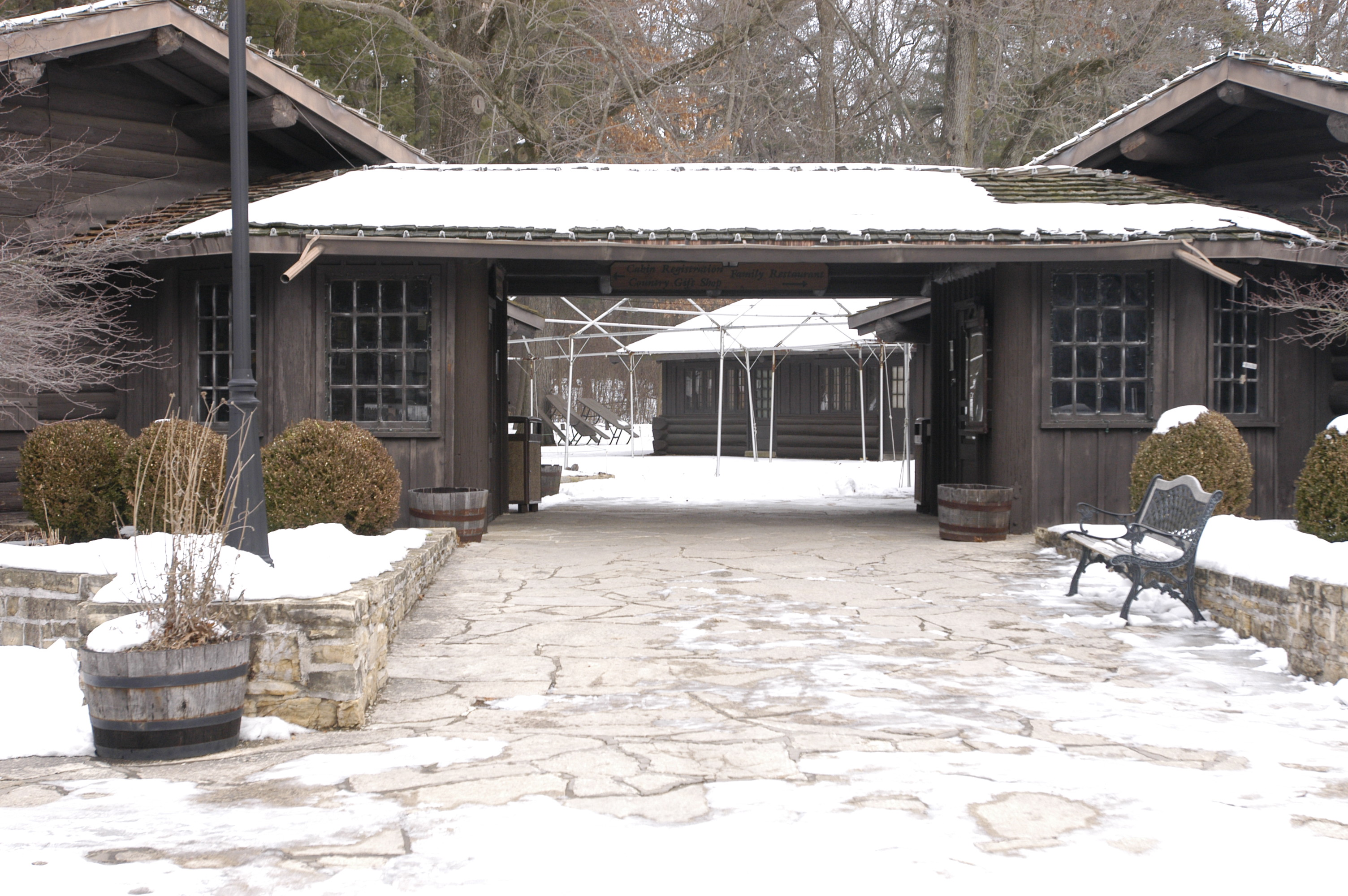 White Pines State Park Lodge and Cabins in White Pines Forest State Park, near Mt. Morris and Polo, Illinois. National Register of Historic Places.